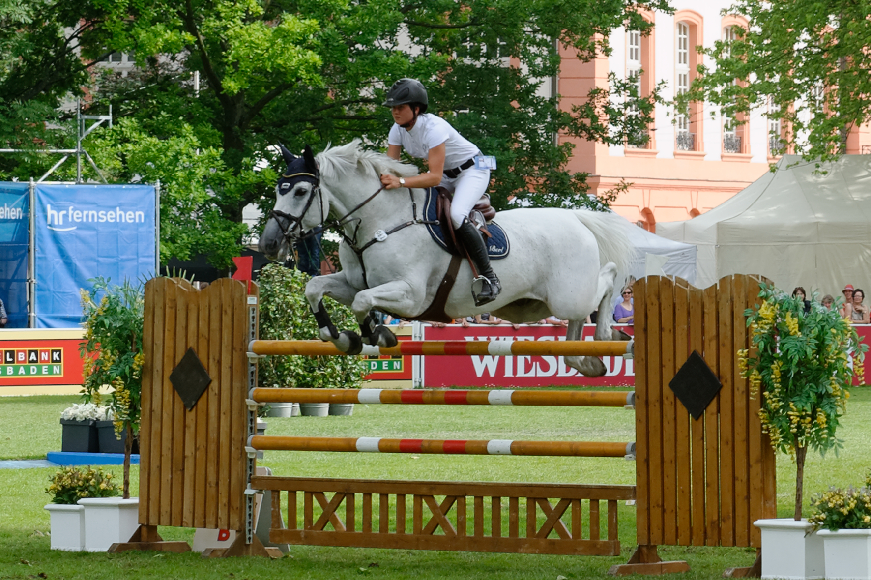 Internationales Pfingstturnier Wiesbaden 2014 The making of this document was supported by the Community-Budget of Wikimedia Germany.